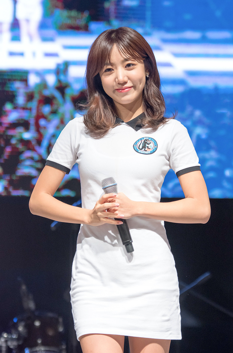 Kim Namjoo at Soongsil University festival, 6 October 2014